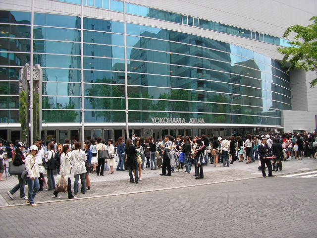 Yokohama Arena,Main entrance